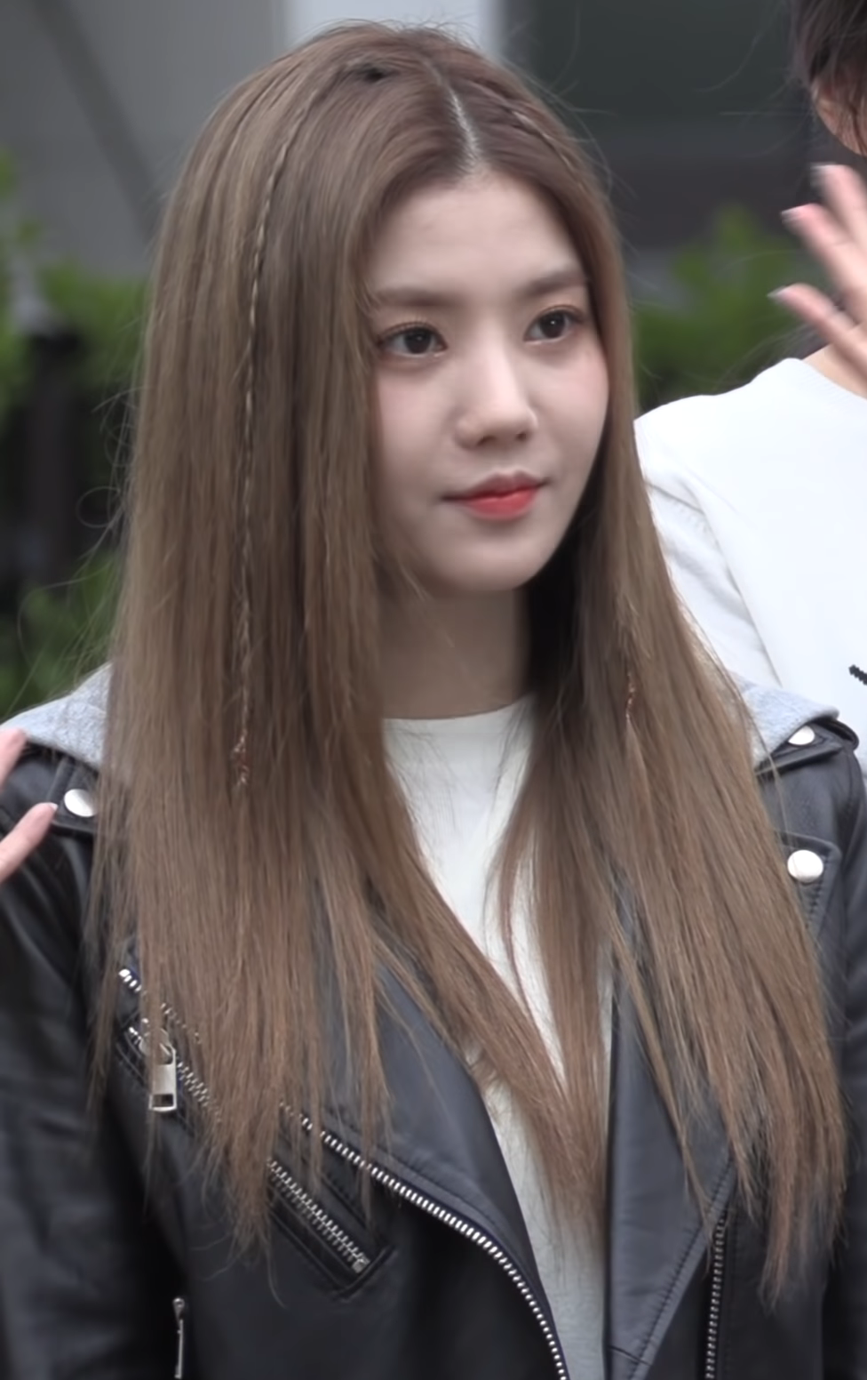 Kwon Eun-bi at Music Bank on April 19, 2019